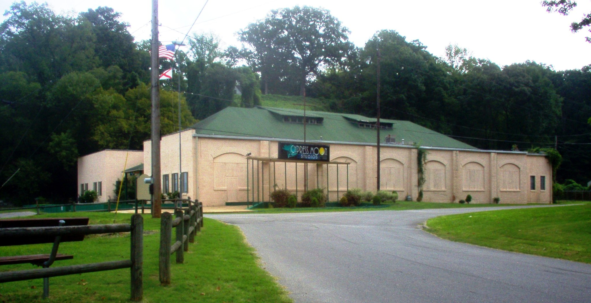 Sheffield Power Plant Alabama Avenue in Sheffield, Alabama.